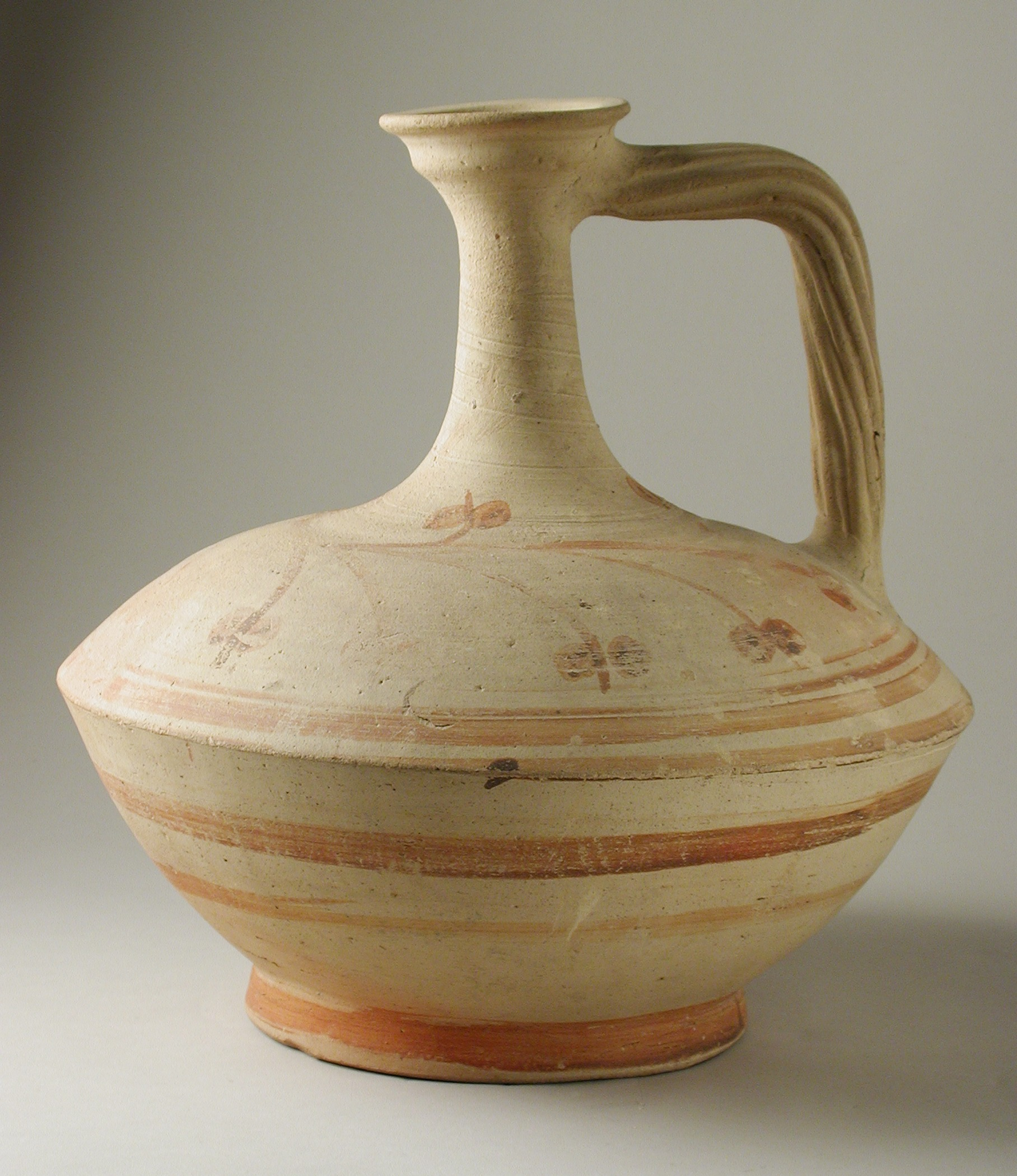 Eastern Mediterranean, Cyprus, 325-50 B.C. Furnishings; Serviceware Ceramic Gift of Harvey Mudd (M.49.14.32) Greek, Roman and Etruscan Art